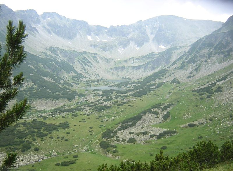 Origin of the Maritsa river. Maritchini ezera (lakes), Maritchin Circus, Marishki Vruh (2765 m), as seen from the hiking trail between Maritsa hut and Musala, Rila Mountains, Bulgaria.